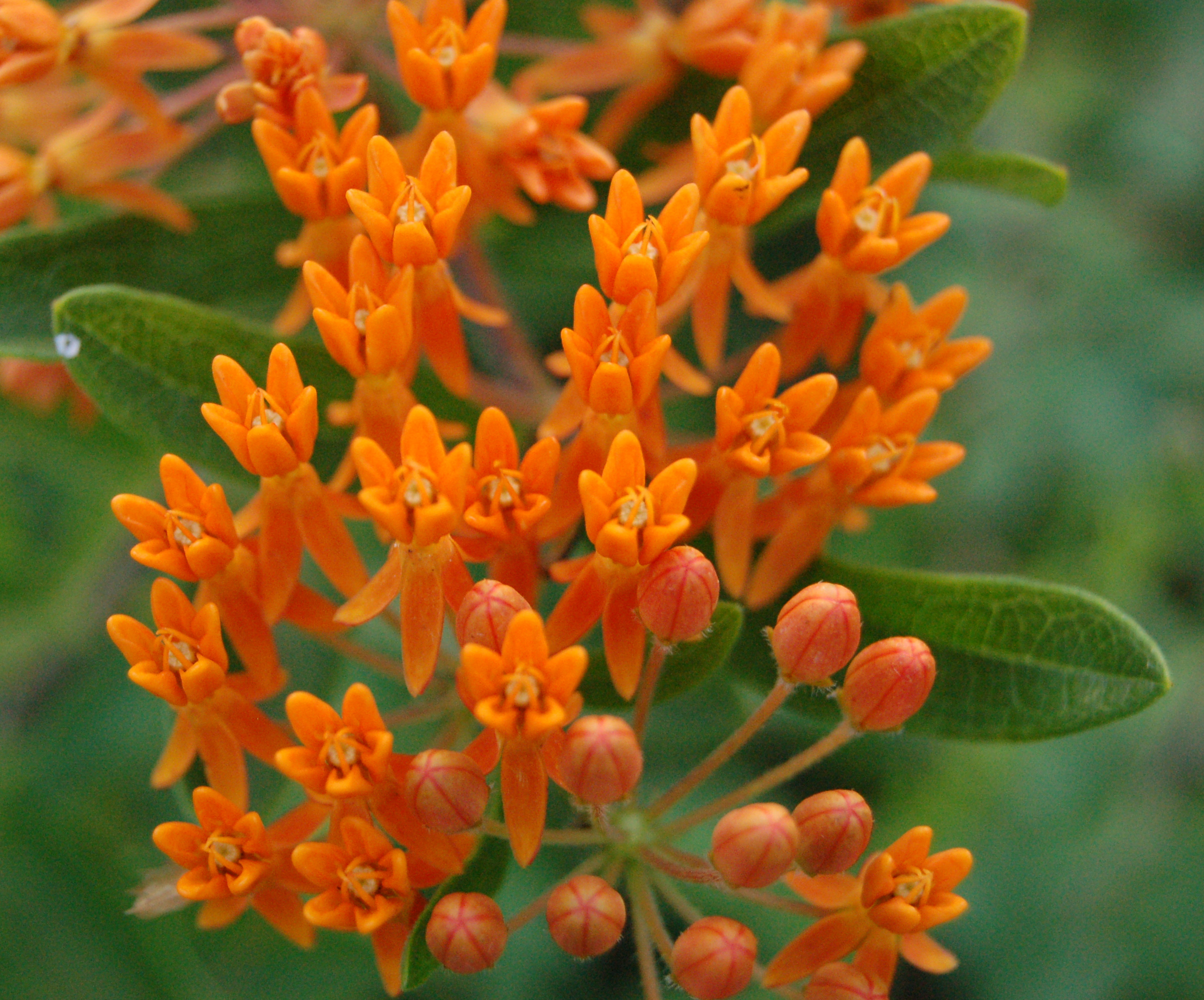 A closeup of the flower head of the Butterfly weed (Asclepias tuberosa) plant. Includes opened flowers and unopened buds. Photo taken in Chester County, Pennsylvania. Photo was a handheld shot.